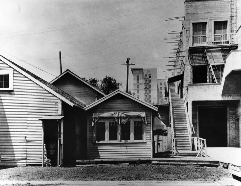 Original Lasky Studio barn The original barn leased in 1913 by Lasky Studio, on the corner of Selma and Vine.